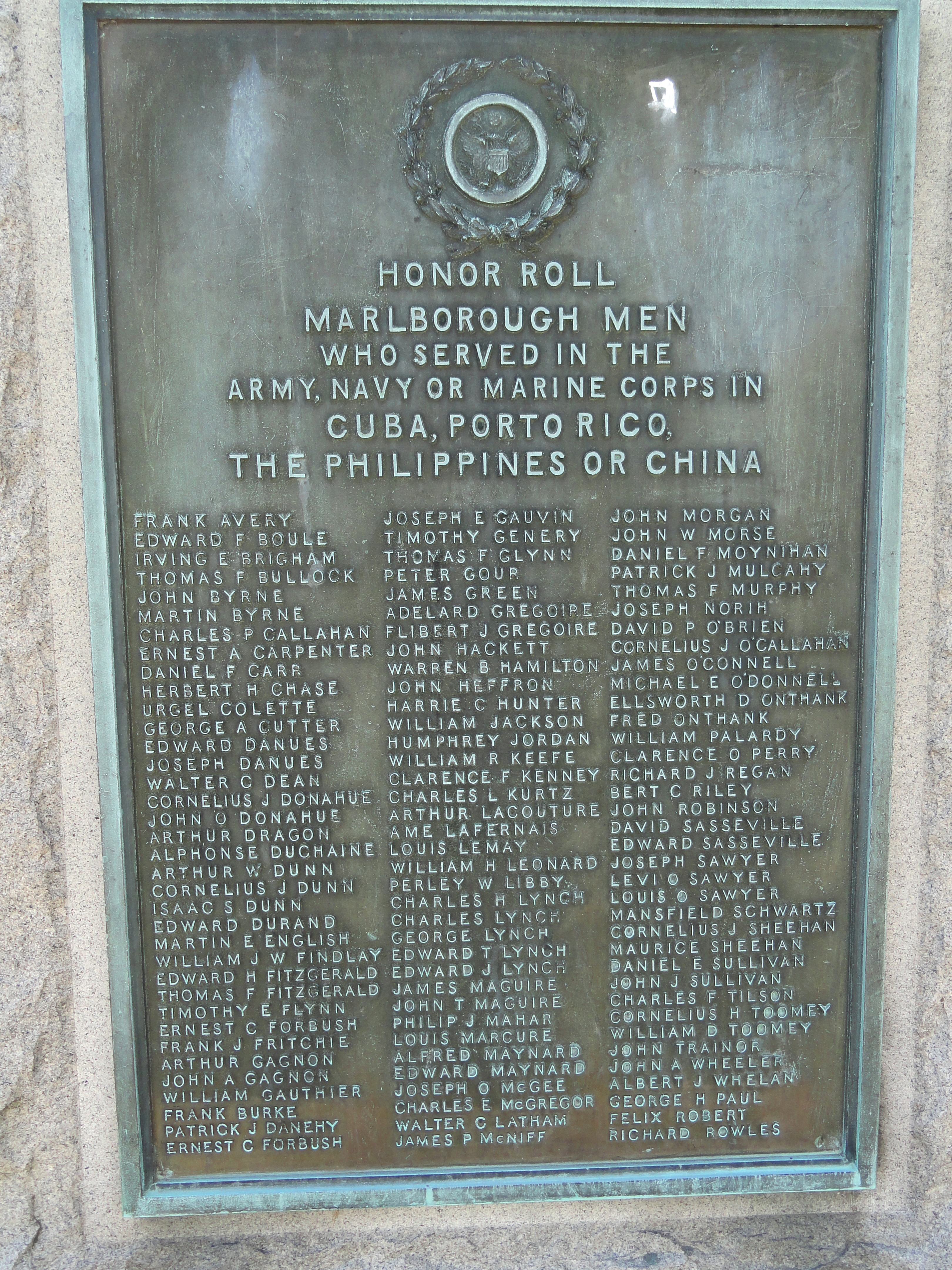 The Volunteer (Spanish-American War Memorial), Monument Square, Marlborough, Massachusetts, USA. Co. Crawford, sculptor; dedicated Oct. 12, 1924. This sculpture is in the public domain in the United States because copyright has not been asserted from 1923 until now. According to the Smithsonian Institution SIRIS system: "Description: A bronze sculpture depicting a Spanish American War infantryman with his rifle held at the ready position. The sculpture stands atop a stone base adorned with a bronze plaque listing the original roster of Company F, 6th Massachusetts Infantry United States Volunteers who served in the Cuban and Puerto Rican campaigns. Inscription: T.F. MCGANN & SONS CO BOSTON, MA (On front of bronze base:) THE VOLUNTEER (On bronze plaque on front of stone base:) SPANISH AMERICAN WAR/1898-1902/ (list of names) / DEDICATED BY THE CITY OF MARLBOROUGH TO HER SONS WHO FREELY SERVED IN HUMANITY'S CAUSE unsigned Founder's mark appears."